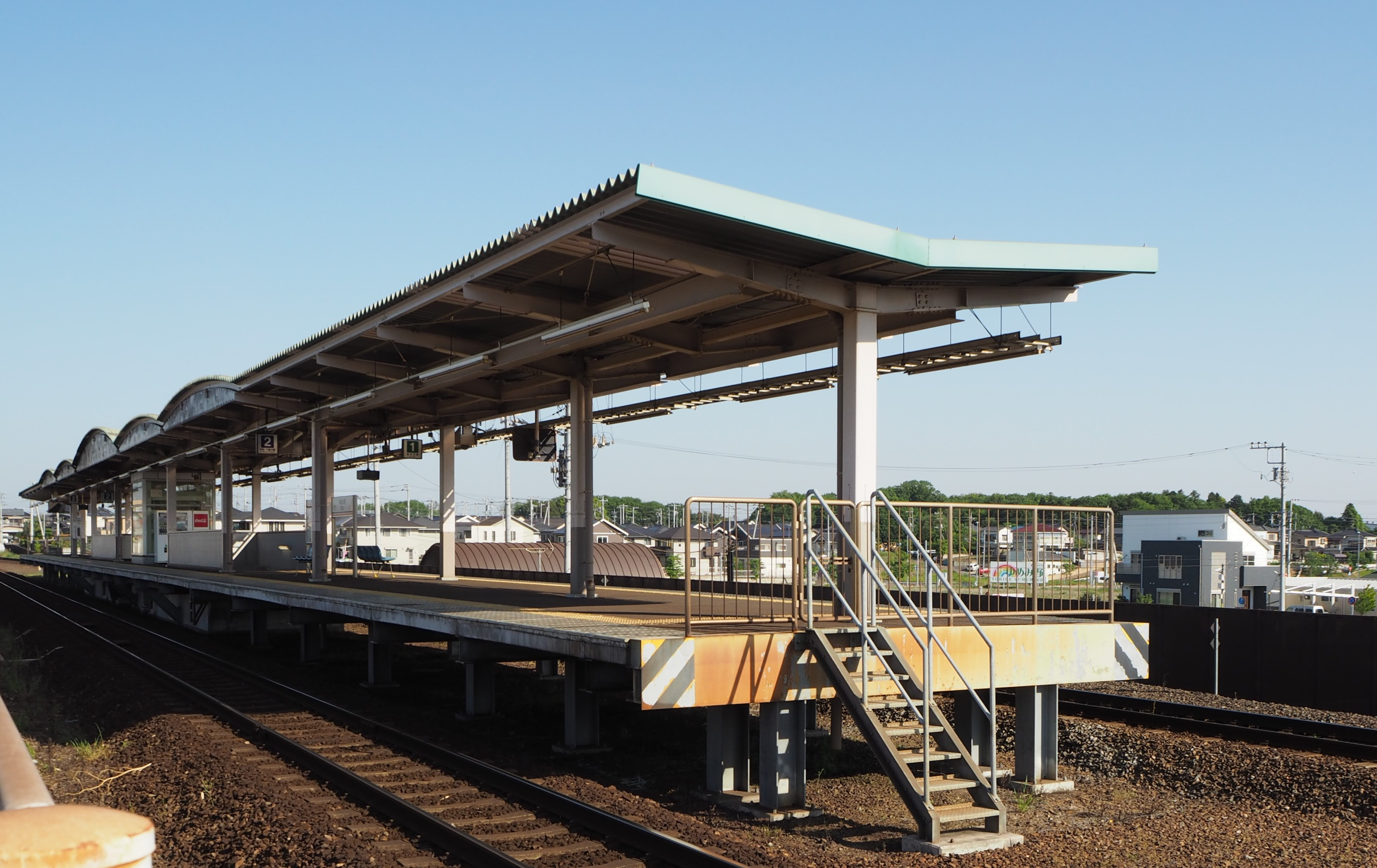 Platforms of Yumemino Station